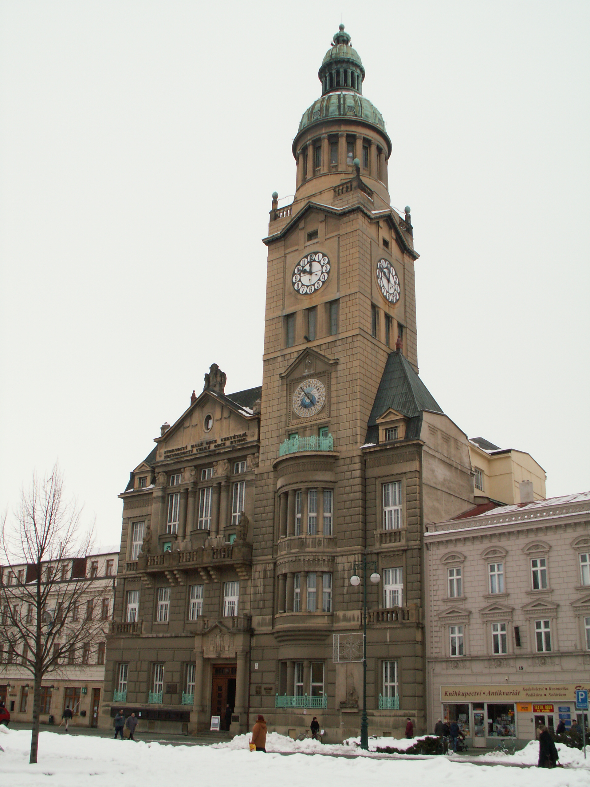 The New Town Hall of Prostějov (builded 1911-1914), architect Karel Hugo Kepka, height 66 m.